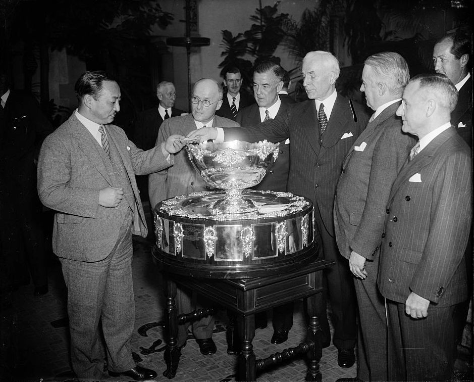 Secretary of State presides at Davis Cup drawing. Washington, D.C., Feb. 3. Presiding at the Davis Cup drawing at the Pan American Union today, Secretary of State Cordell Hull pulls Japan's pairing out of historic bowl first and hands it over to Yakichiro Suma (須磨弥吉郎), Counselor of the Japanese Embassy. In the photograph, left to right: Yakichiro; Russell B. Kingman, Treasurer of the United States Lawn Tennis Association; Joseph Ward, First Vice President; Secretary Hull; Holcombe Ward, President of the USLTA; and Wallis Pate, Capt. of this year's Davis Cup team, 2/3/38. (original text)